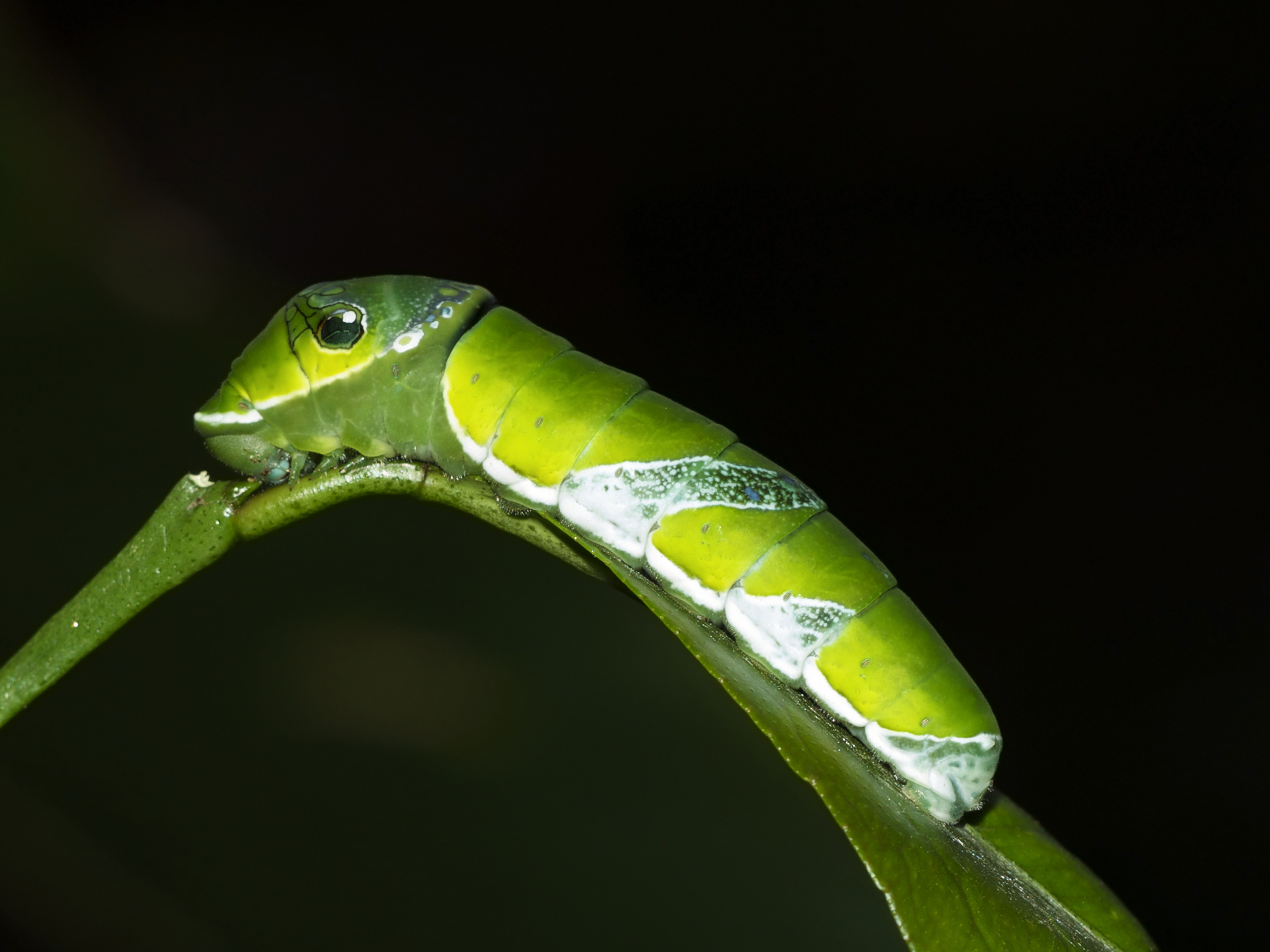 Papilio bianor caterpillar, Chemnitz Botanical Garden, Germany